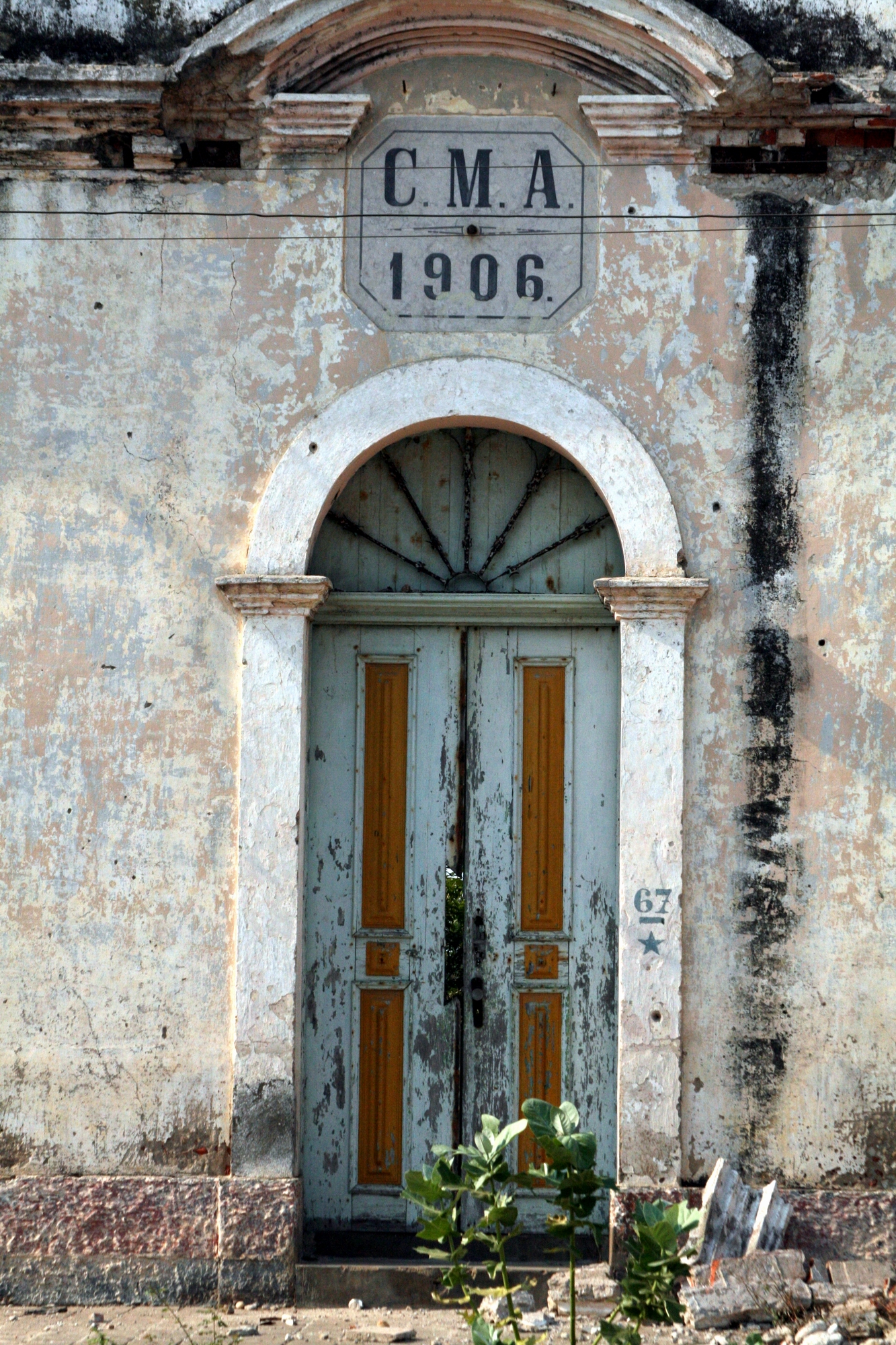 The old school of Ambriz